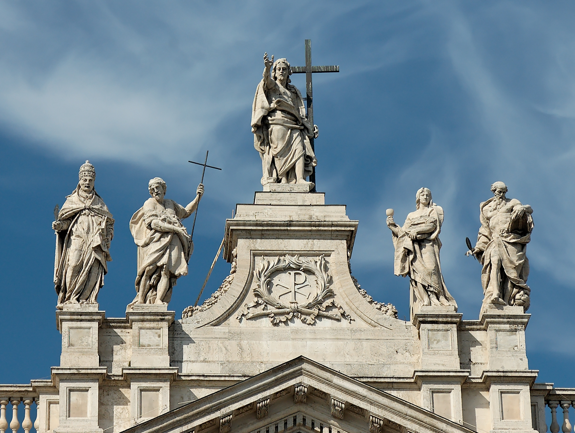 Jesus Christ surrounded by St. John the Evangelist, St. John the Baptist and Doctors of the Church. Attic of the Basilica of St. John Lateran (Rome).